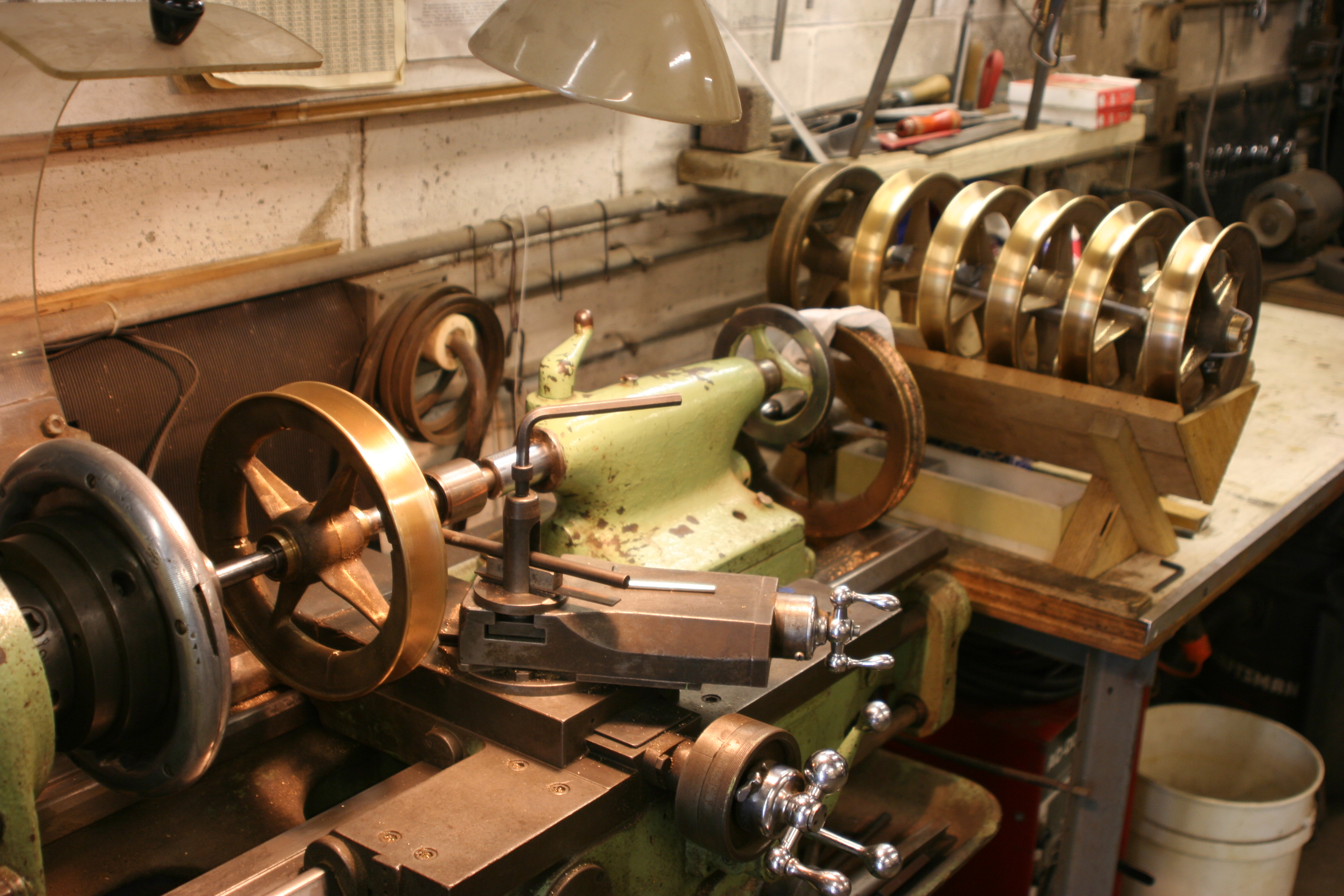 Machining Trolley Wheels at the Minnesota Streetcar Museum Como-Harriet line.